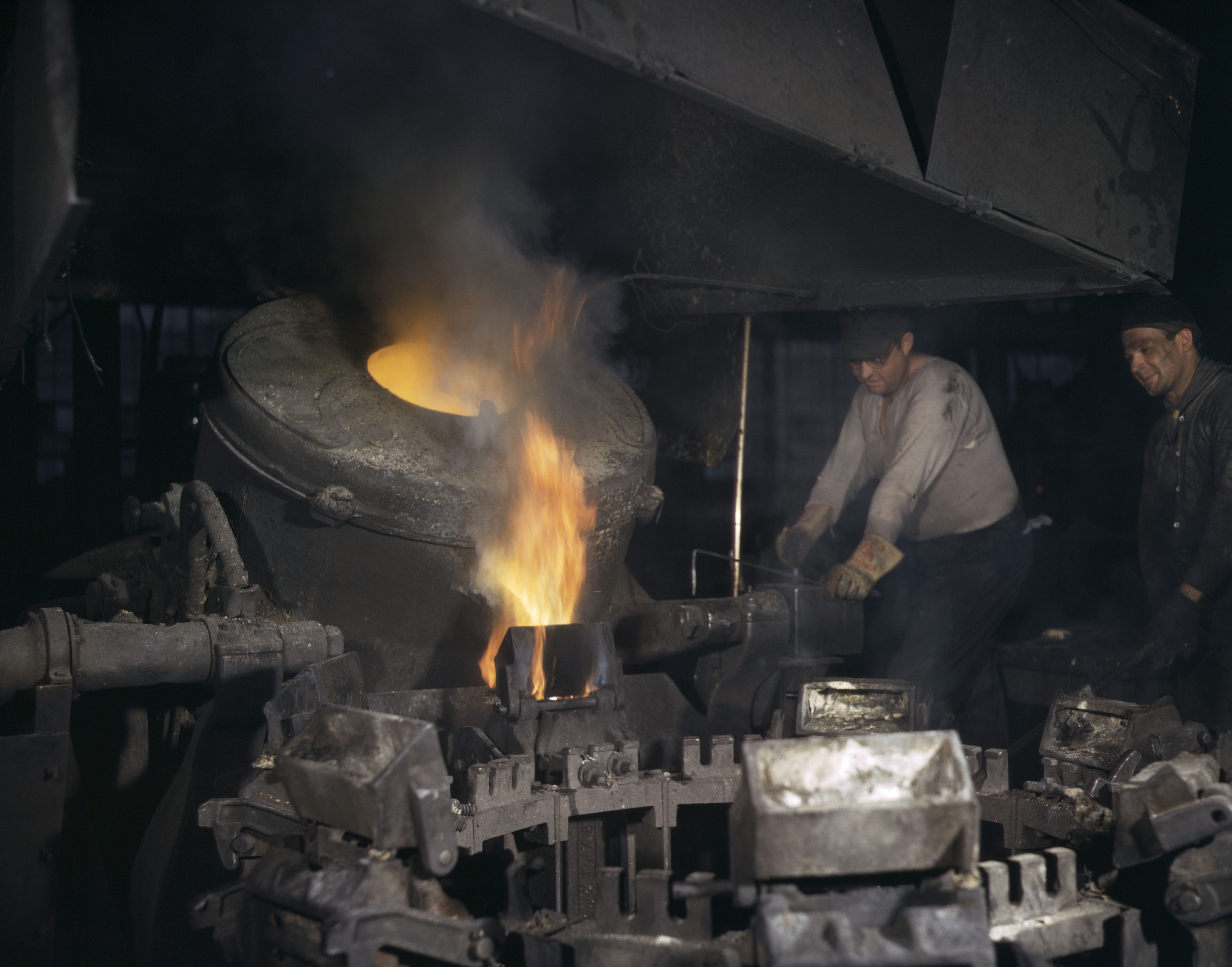 Casting a billet from an electric furnace, Chase Brass and Copper Co., Euclid, Ohio. Electric furnaces have helped considerably in speeding the production of brass and other copper alloys for national defense.